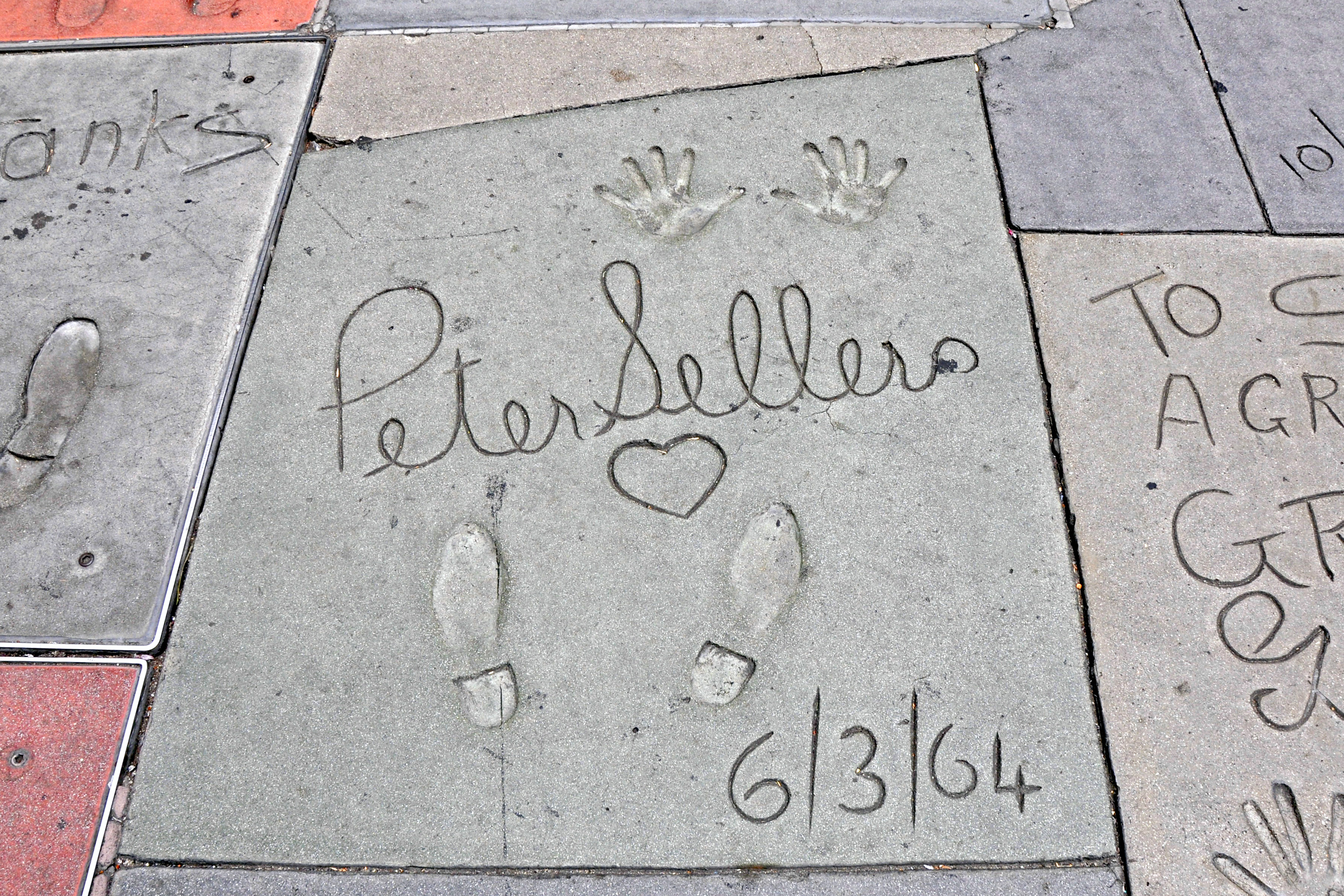 Impronte di Peter Sellers al TCL Chinese Theatre a Los Angeles, agosto 2011